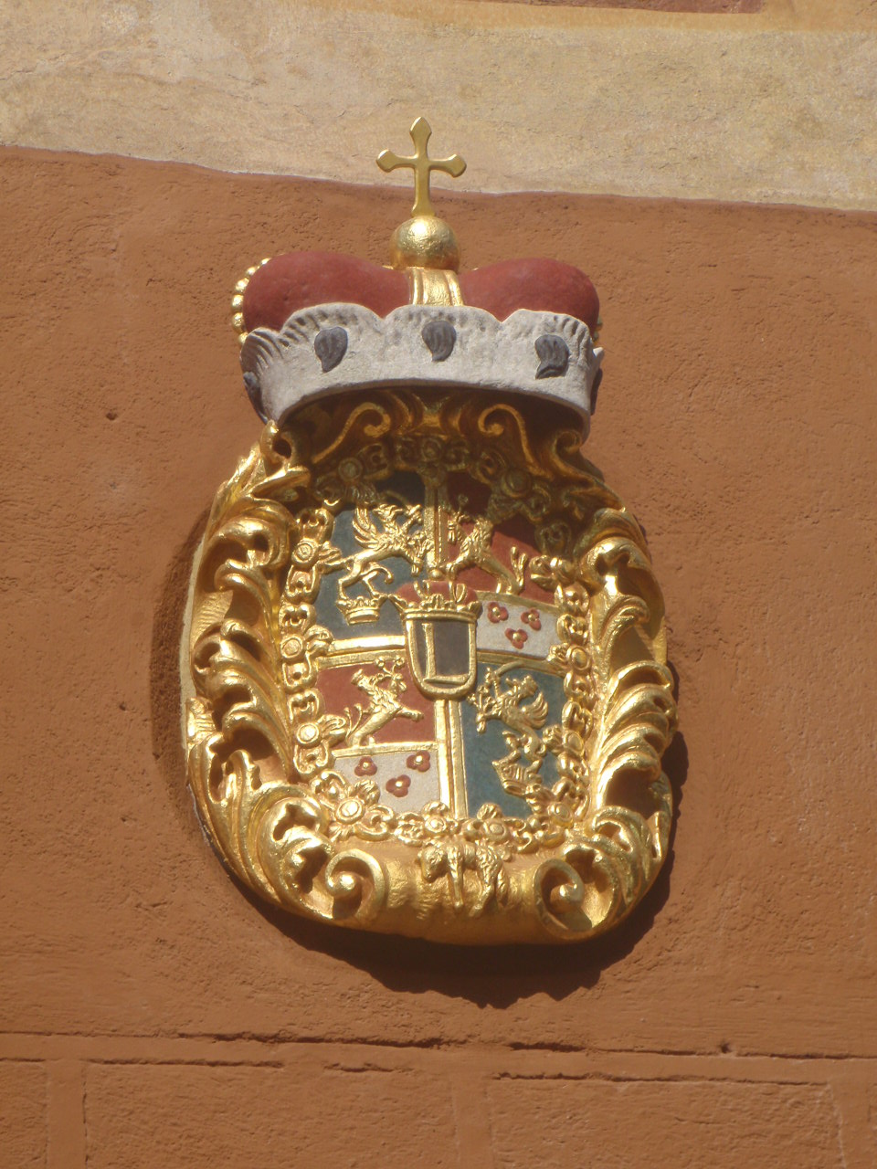 Flag von Esterházy in Castle Kőszeg